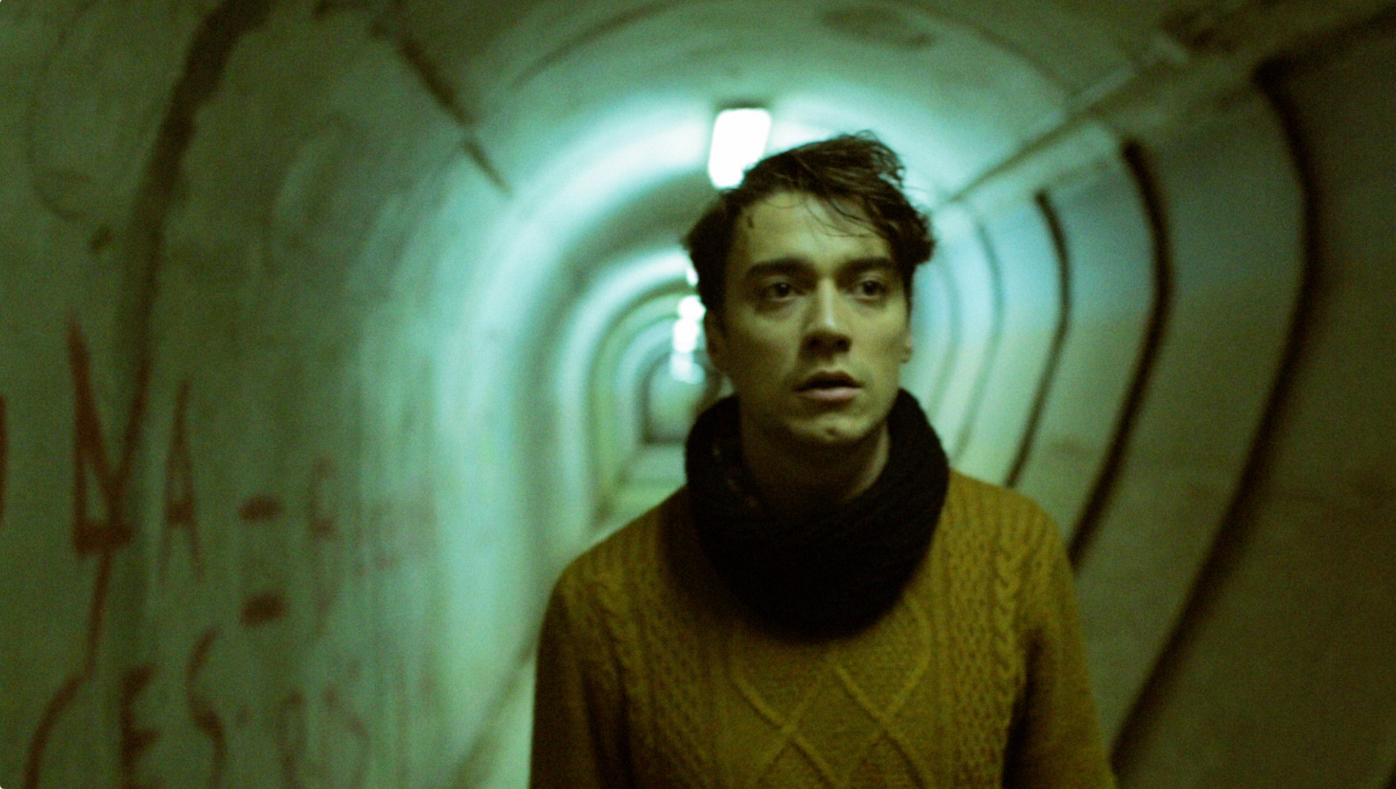 Still 2 from the film Advent (Ad-vientu) directed by Roberto F. Canuto & Xu Xiaoxi in 2016, with actor David Soto Giganto.